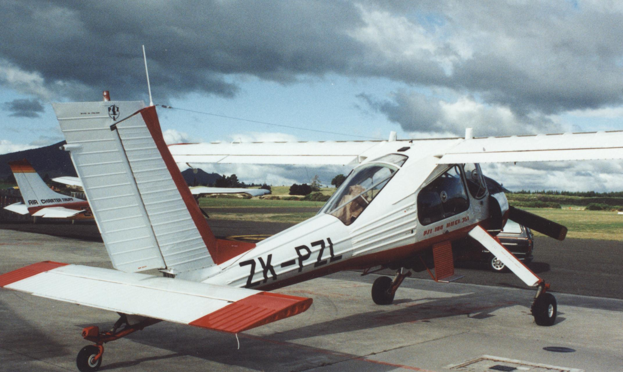 PZL 104 Wilga 35A ZK-PZL at Taupo airfield, North Island, New Zealand